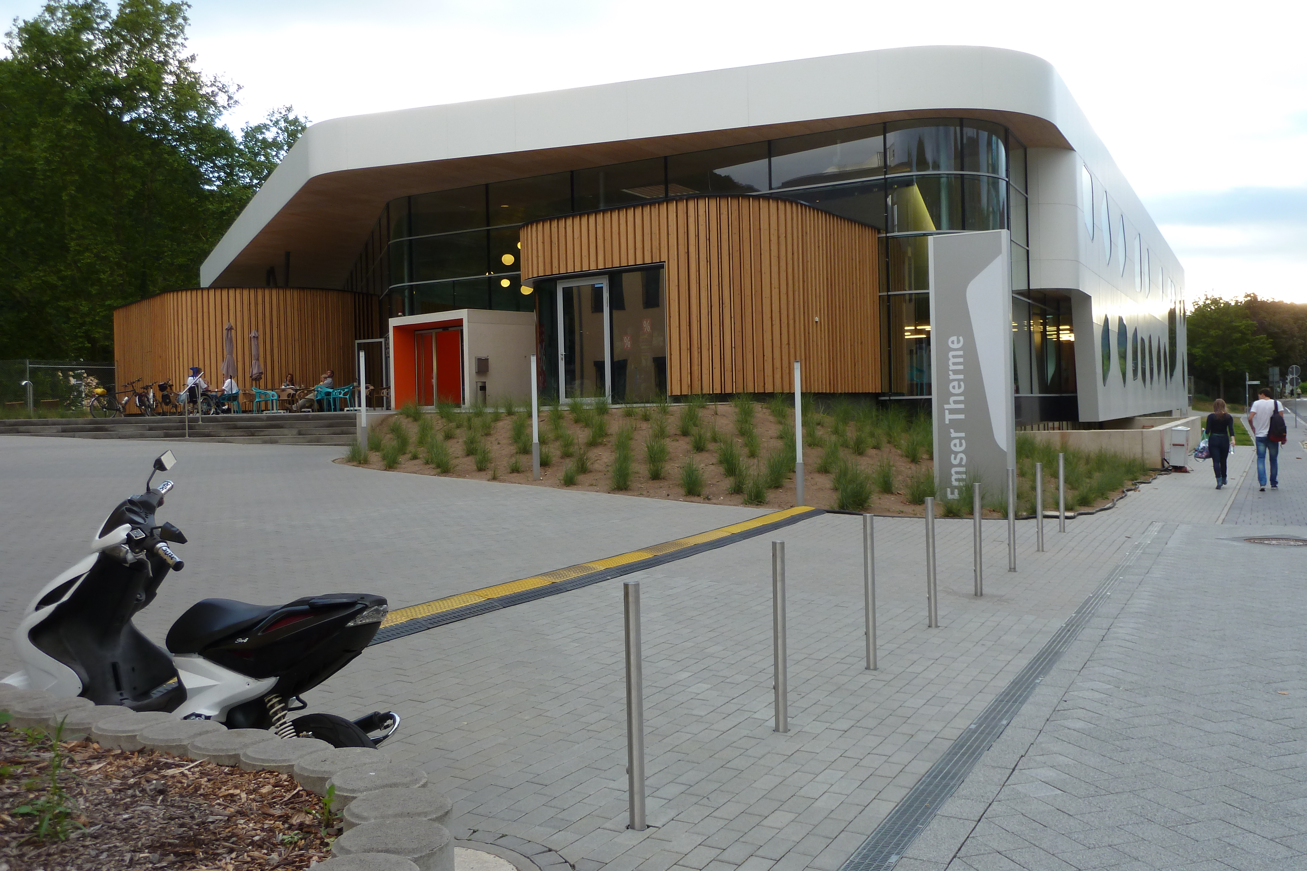 Emser Therme, Viktoria Allee in Bad Ems